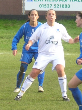 Bham city ladies vs Everton League match 2006/07